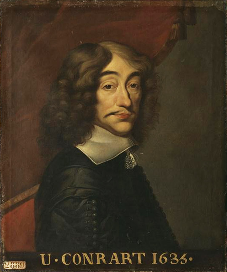 Valentin Conrart (1603-1675) was one of the founders of the Académie française